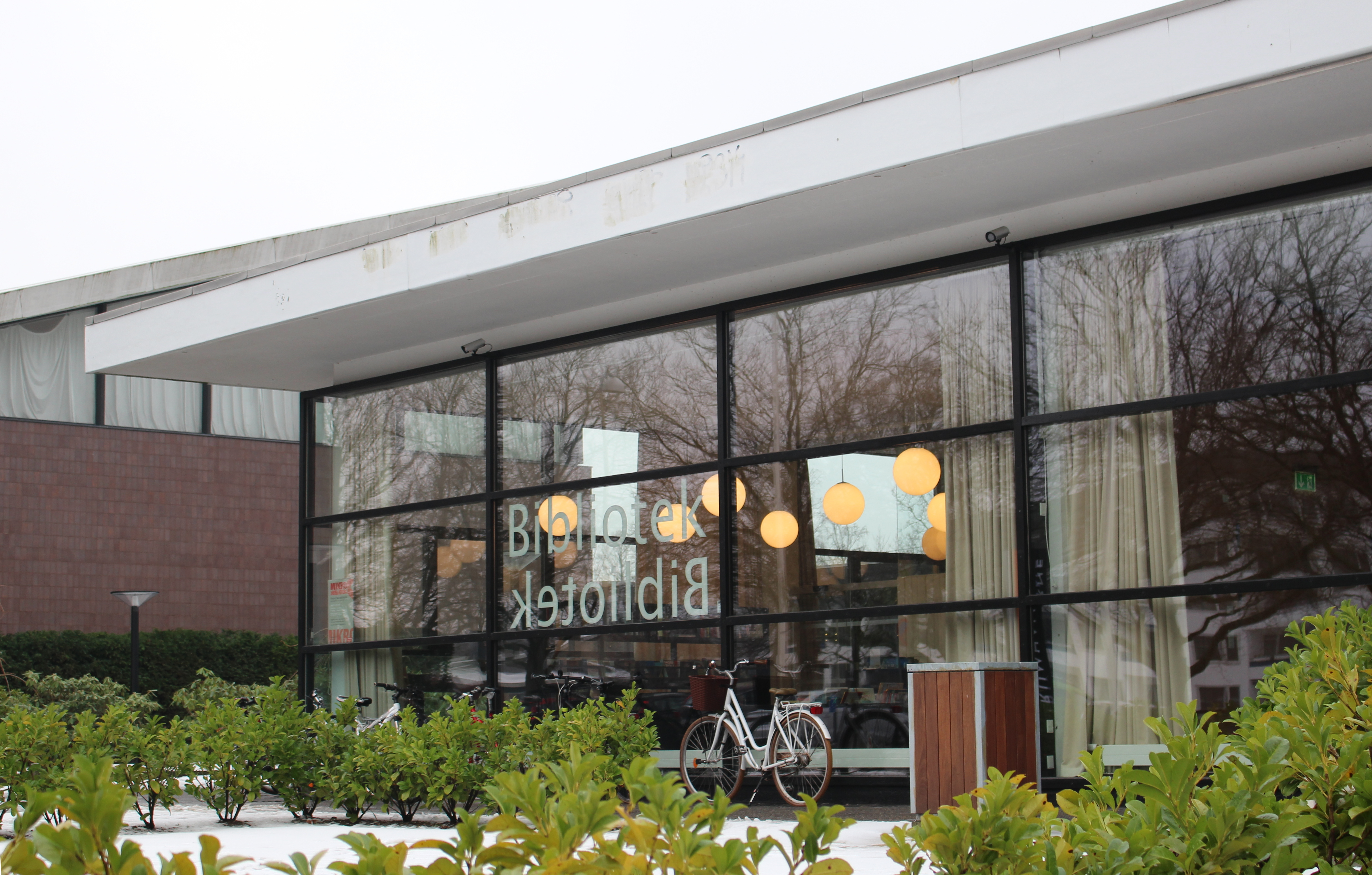 "Virum Mikrobibliotek", Library in Virum, Denmark.